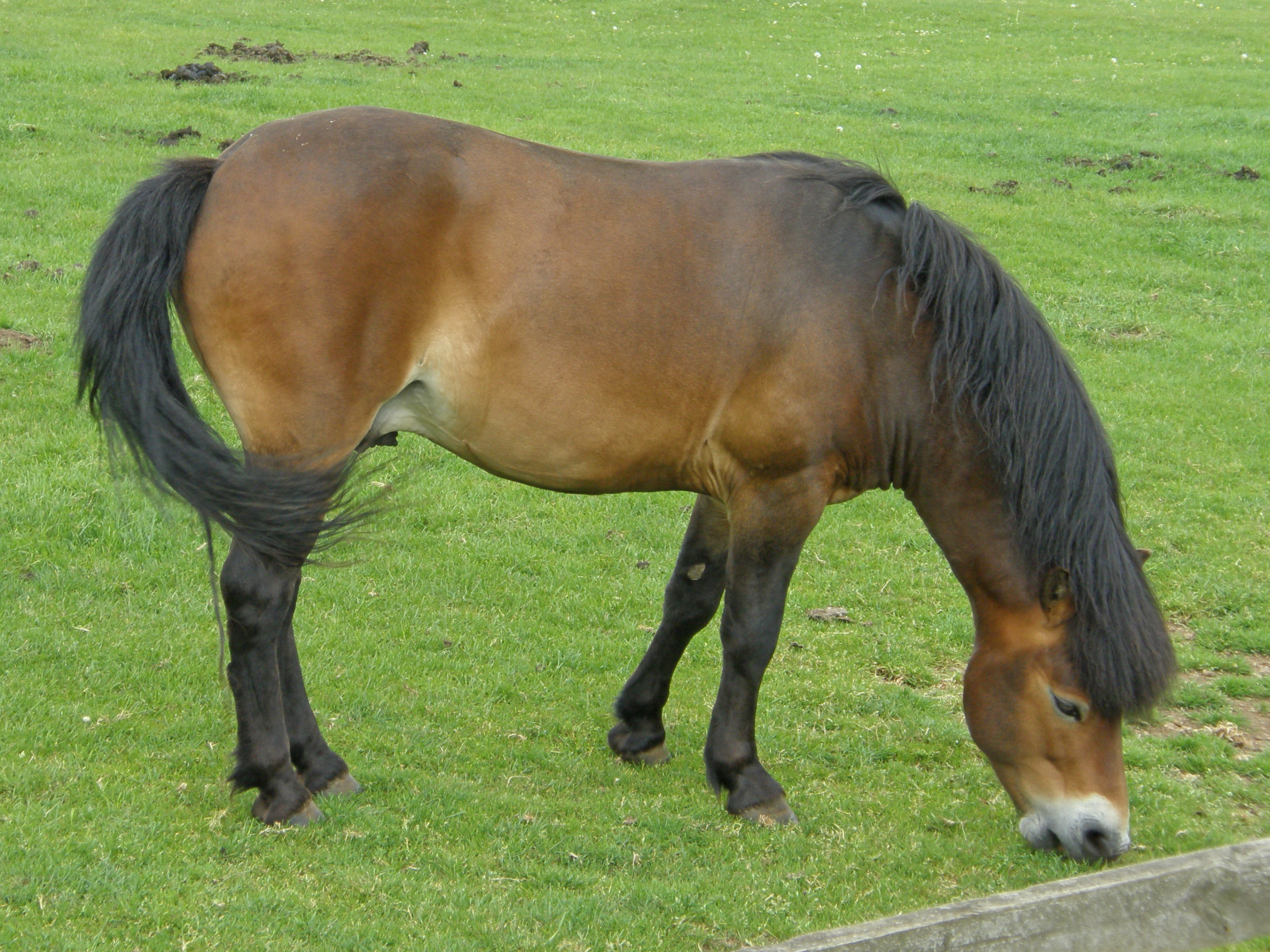 Exmoor Pony at Cotswold Farm Park